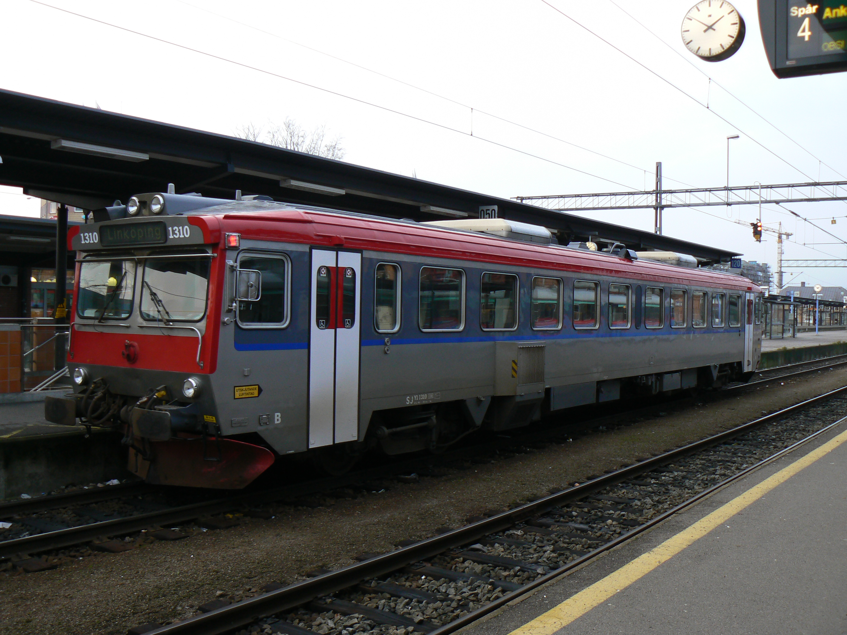 Swedish Y1 train. Photo by Skvattram 2006-11-24.